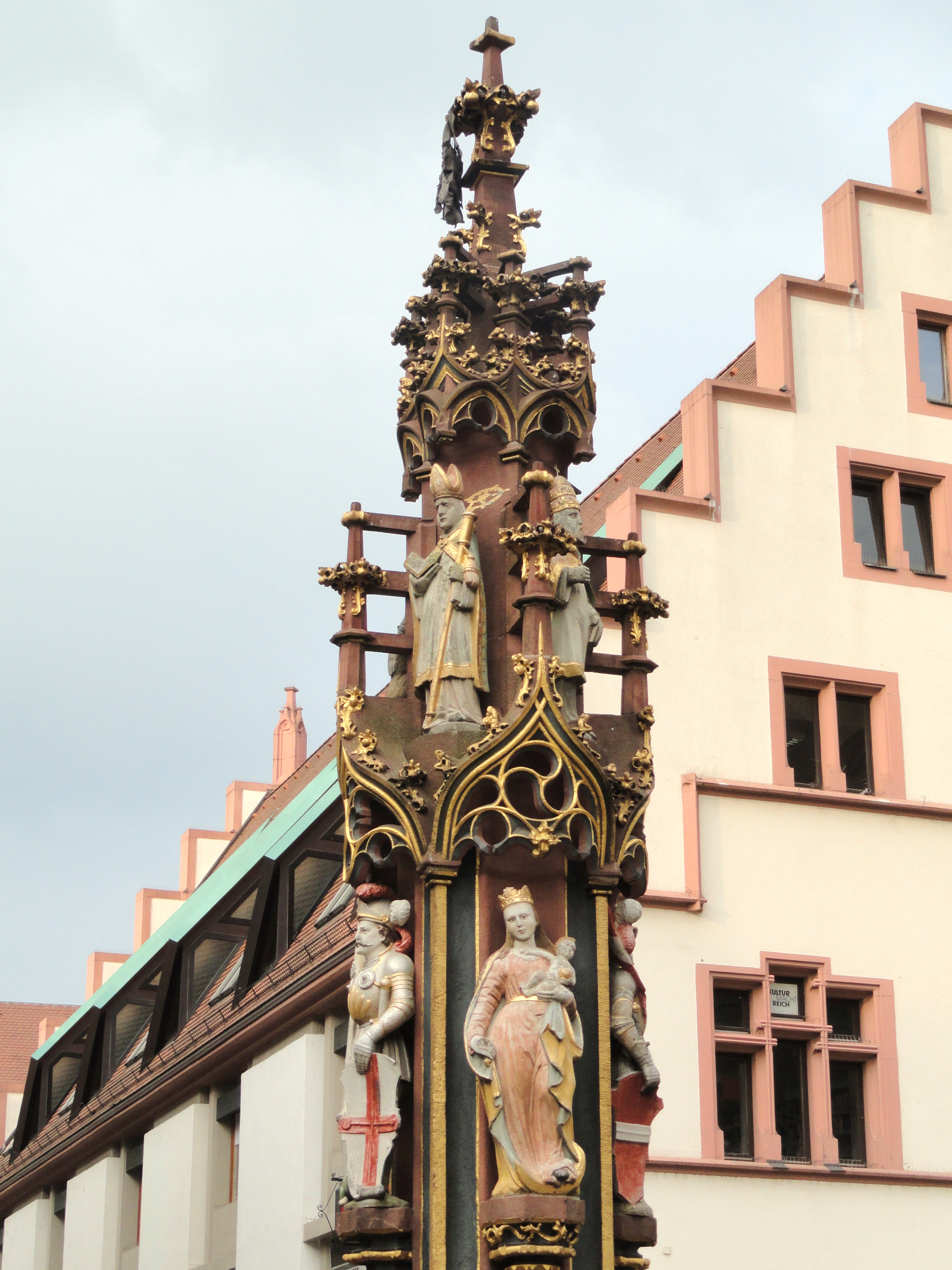 Fischbrunnen detail, Freiburg im Breisgau, Baden-Württemberg, Germany.